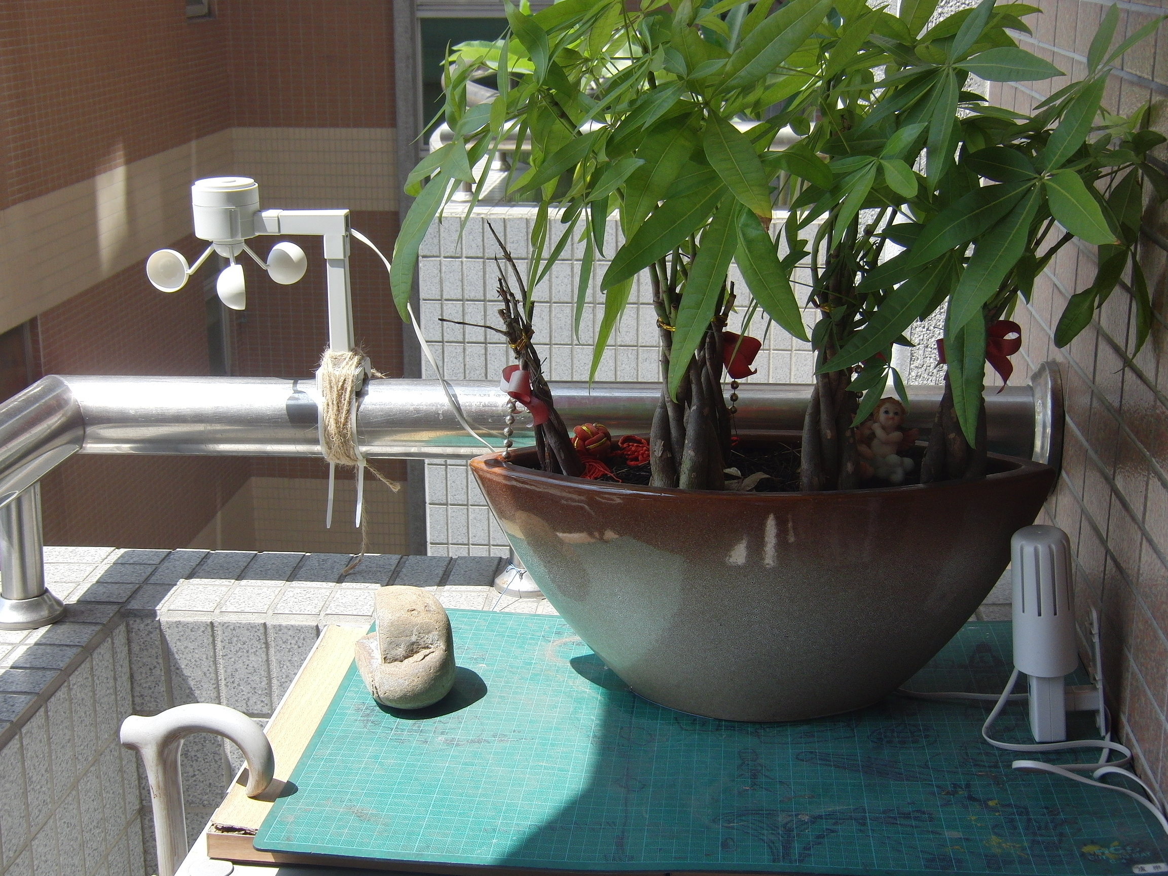 personal weather center